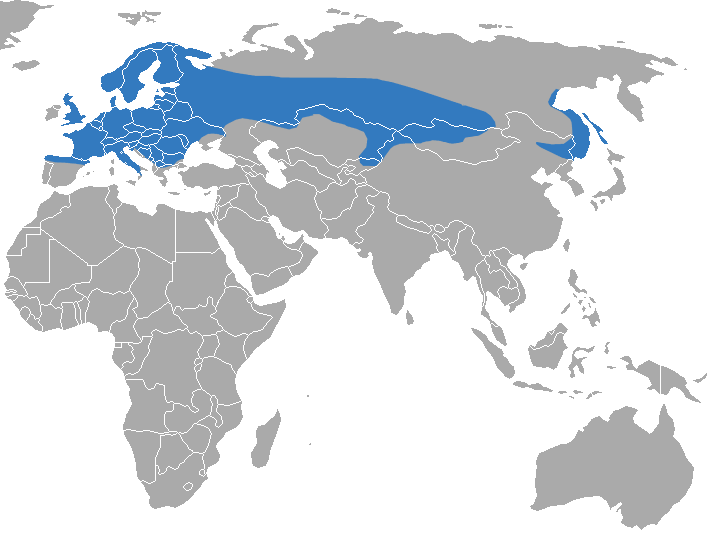 Eurasian Water Shrew (Neomys fodiens) range